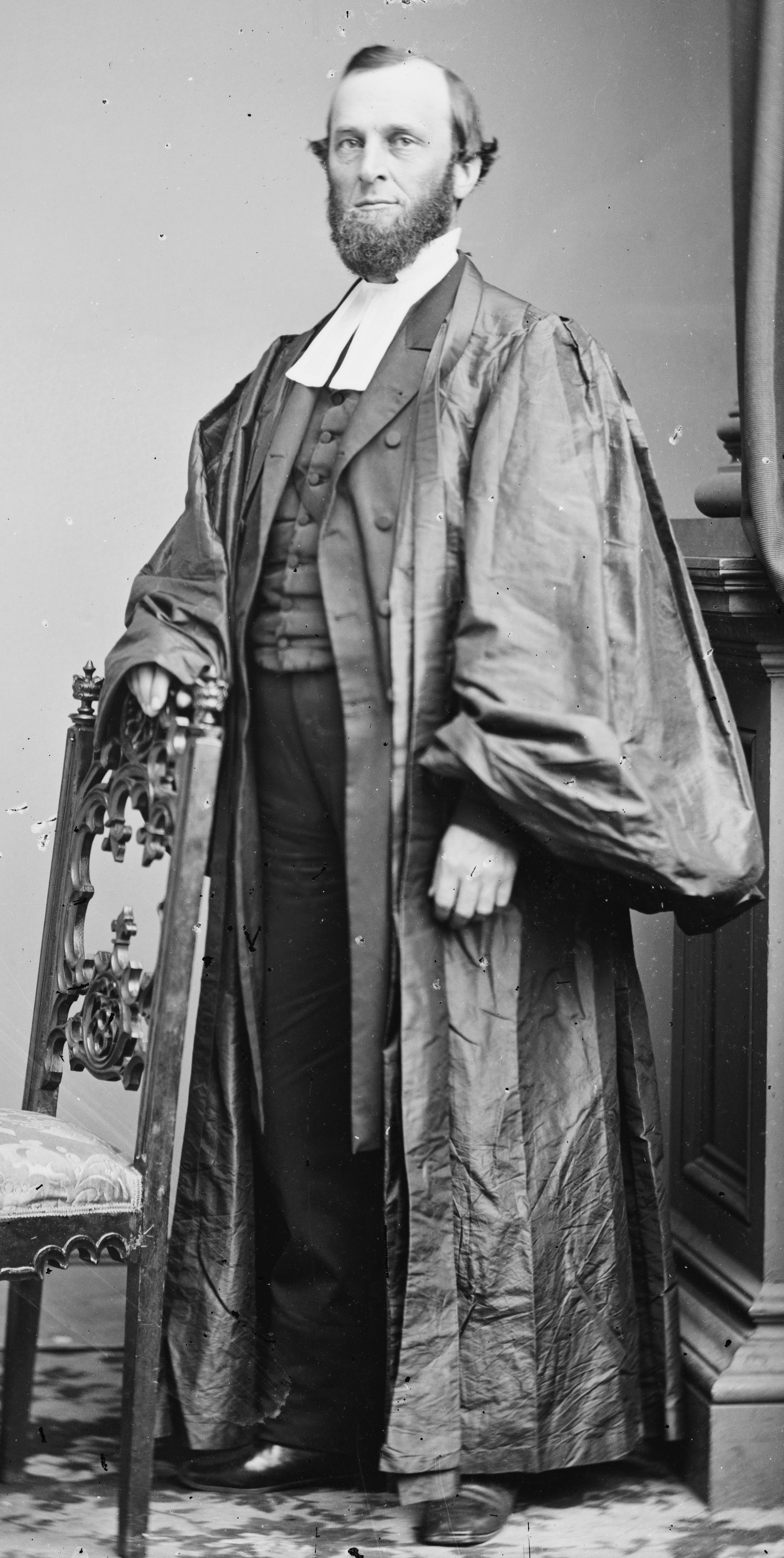 Thomas Gallaudet (1822-1902). Library of Congress description: "Rev. Thos. Gallaudet".